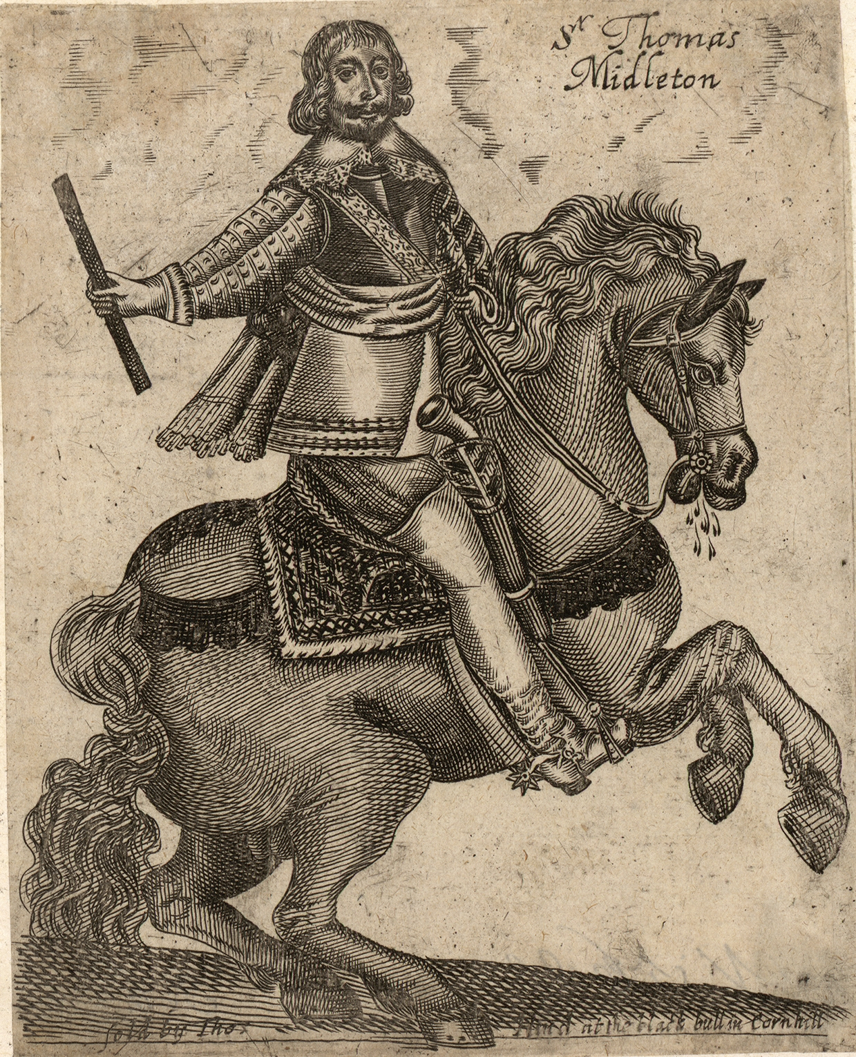 An image from a set of 8 extra-illustrated volumes of A tour in Wales by Thomas Pennant (1726-1798) that chronicle the three journeys he made through Wales between 1773 and 1776. These volumes are unique because they were compiled for Pennant's own library at Downing. This edition was produced in 1781. The volumes include a number of original drawings by Moses Griffiths, Ingleby and other well known artists of the period. Thomas Pennant (1726-1798)